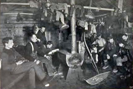 Interior of Klondike Roadhouse, around 1898